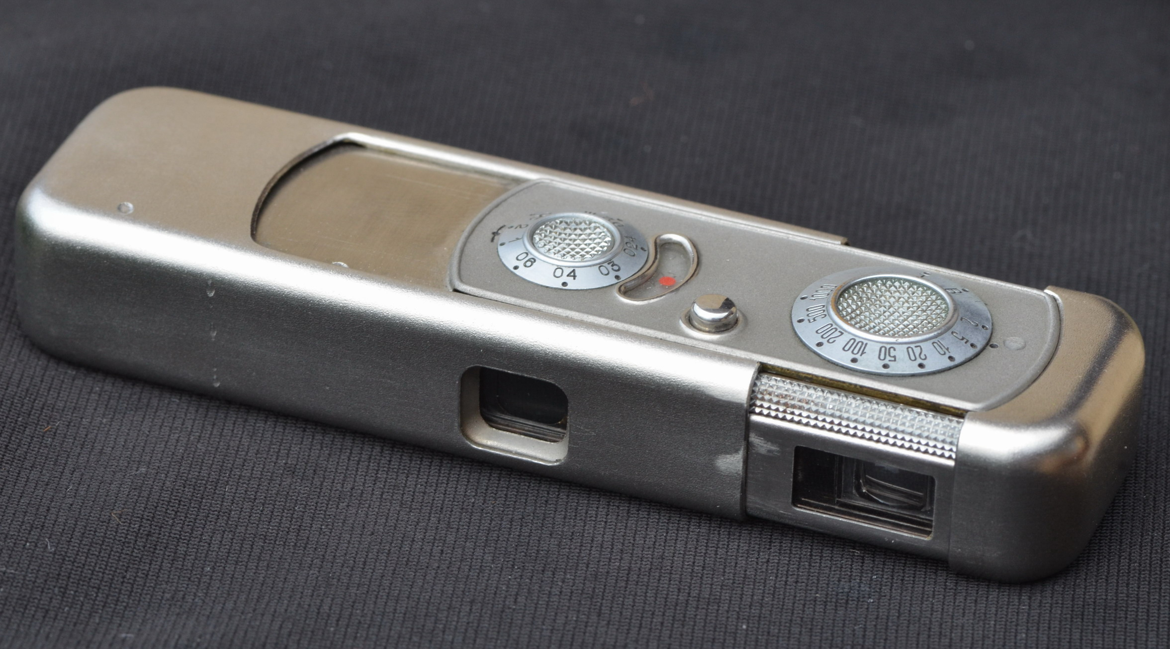 Minox Riga (1939) with Minostigmat 3,5 F=15 lens